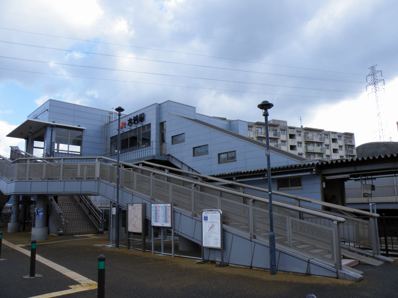 JR Kyushu Chikuho Main Line (Wakamatsu Line) Honjo Station